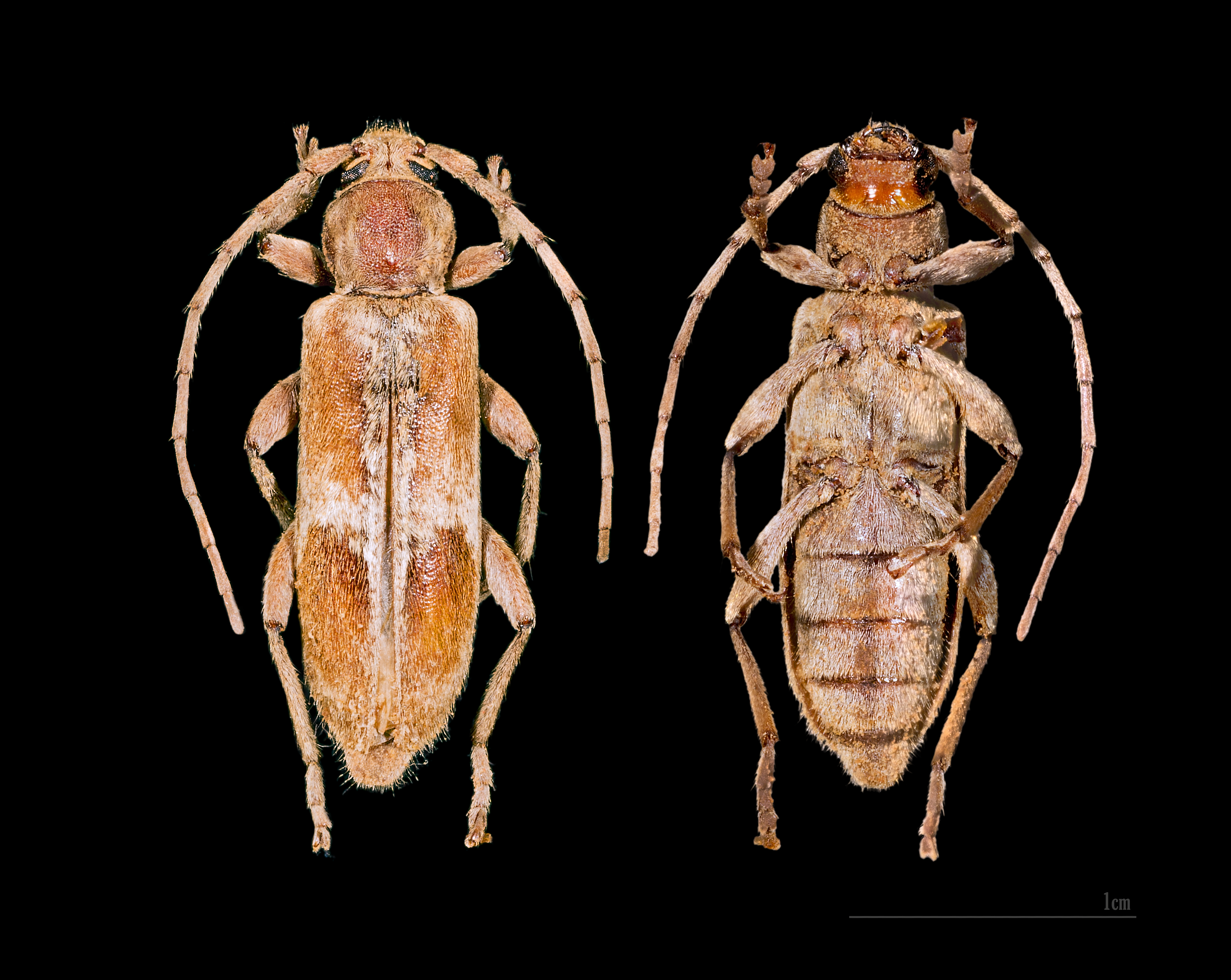 Trichoferus pallidus - Two views of same specimen.